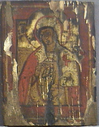 Our Lady "Help in childbirth"